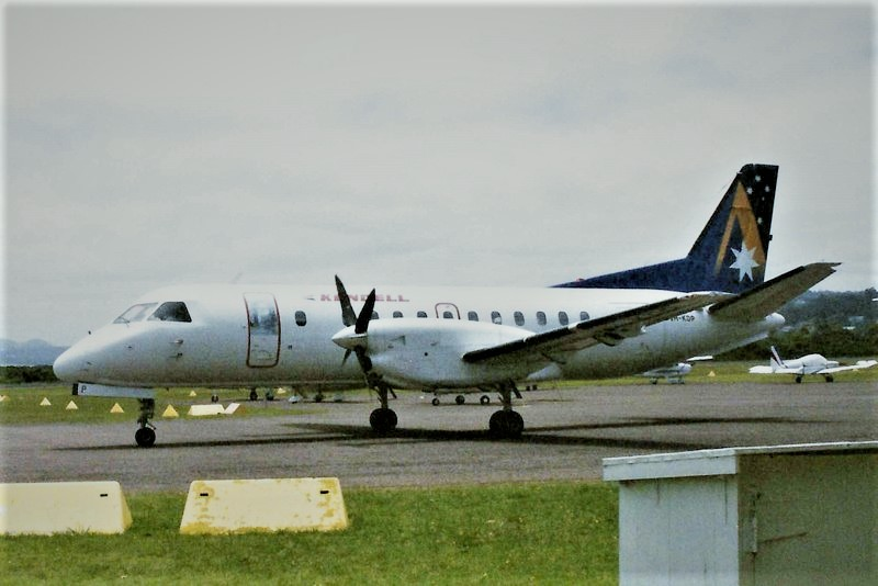 A Kendell Airlines Saab 340A in the airline's post-Ansett-takeover colour scheme at Merimbula Airport on the south coast of New South Wales. Image scanned from a 6"x4" photograph of VH-KDP taken by YSSYguy on 29 December 1998.